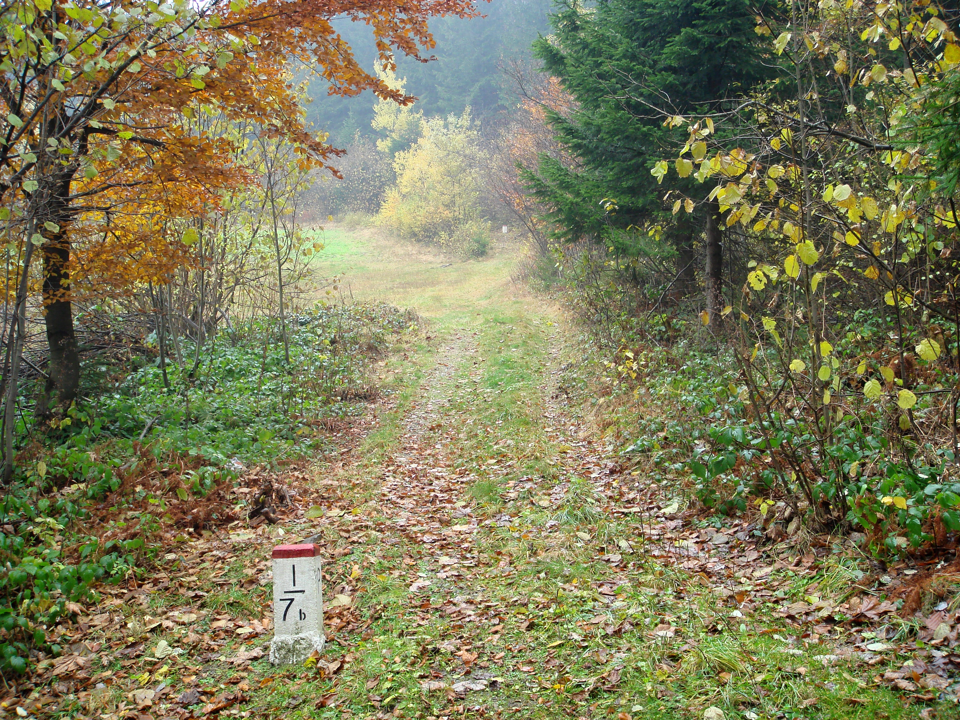 Czech-Polish border near Jaworzynka.